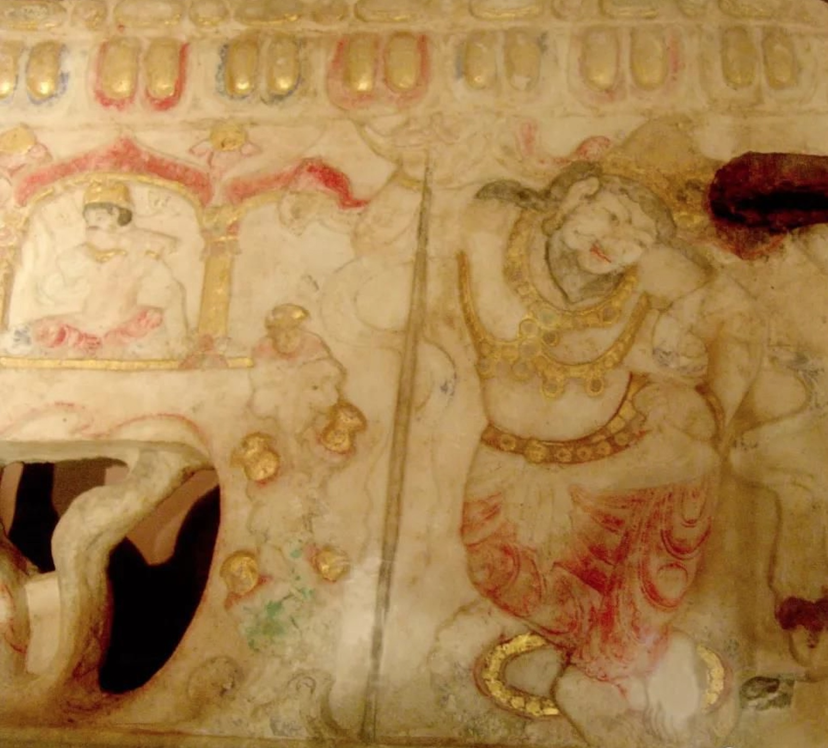 Detail of the sarcophagus of the Sogdian An Pei, Sui dynasty.